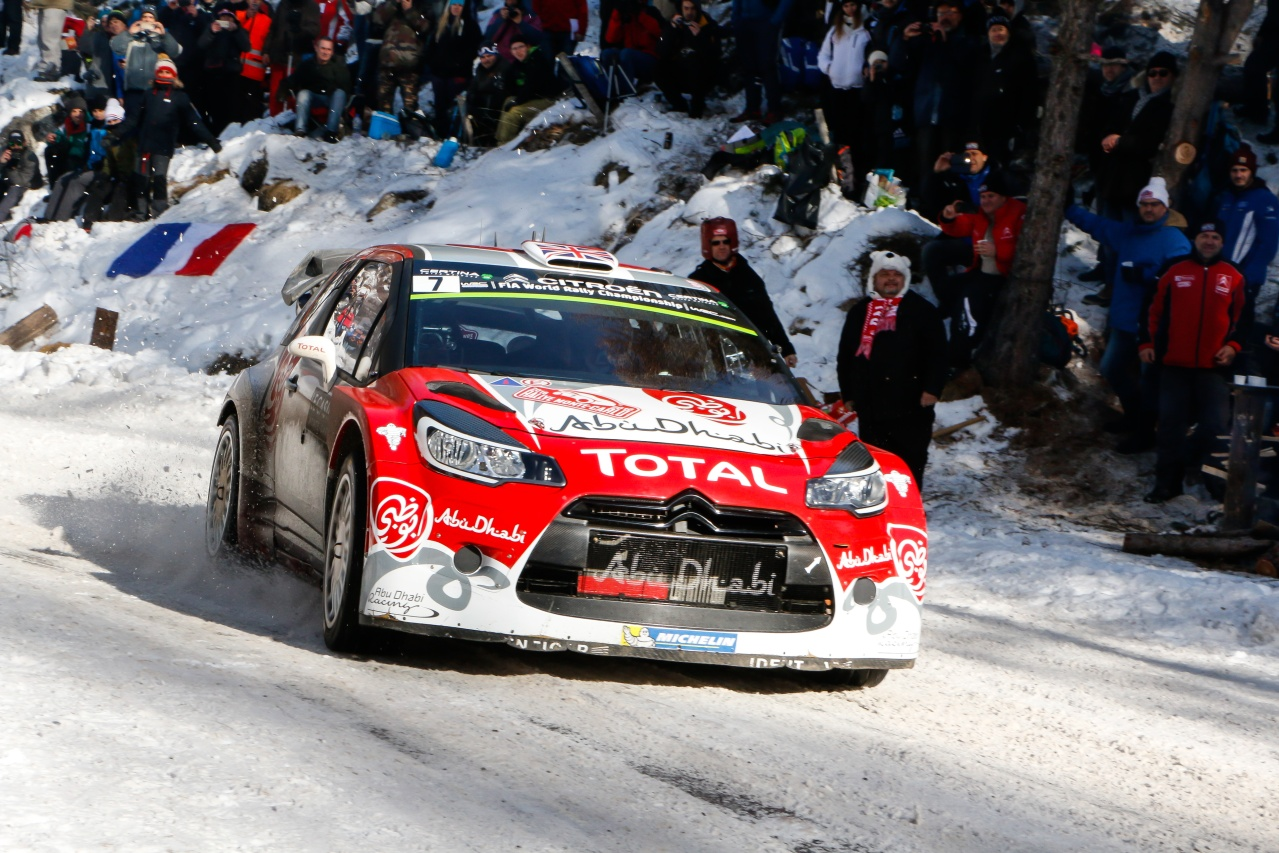 Kris Meeke and co-driver Paul Nagle in their Citroën DS3 WRC at the 2016 Rallye Automobile Monte-Carlo.